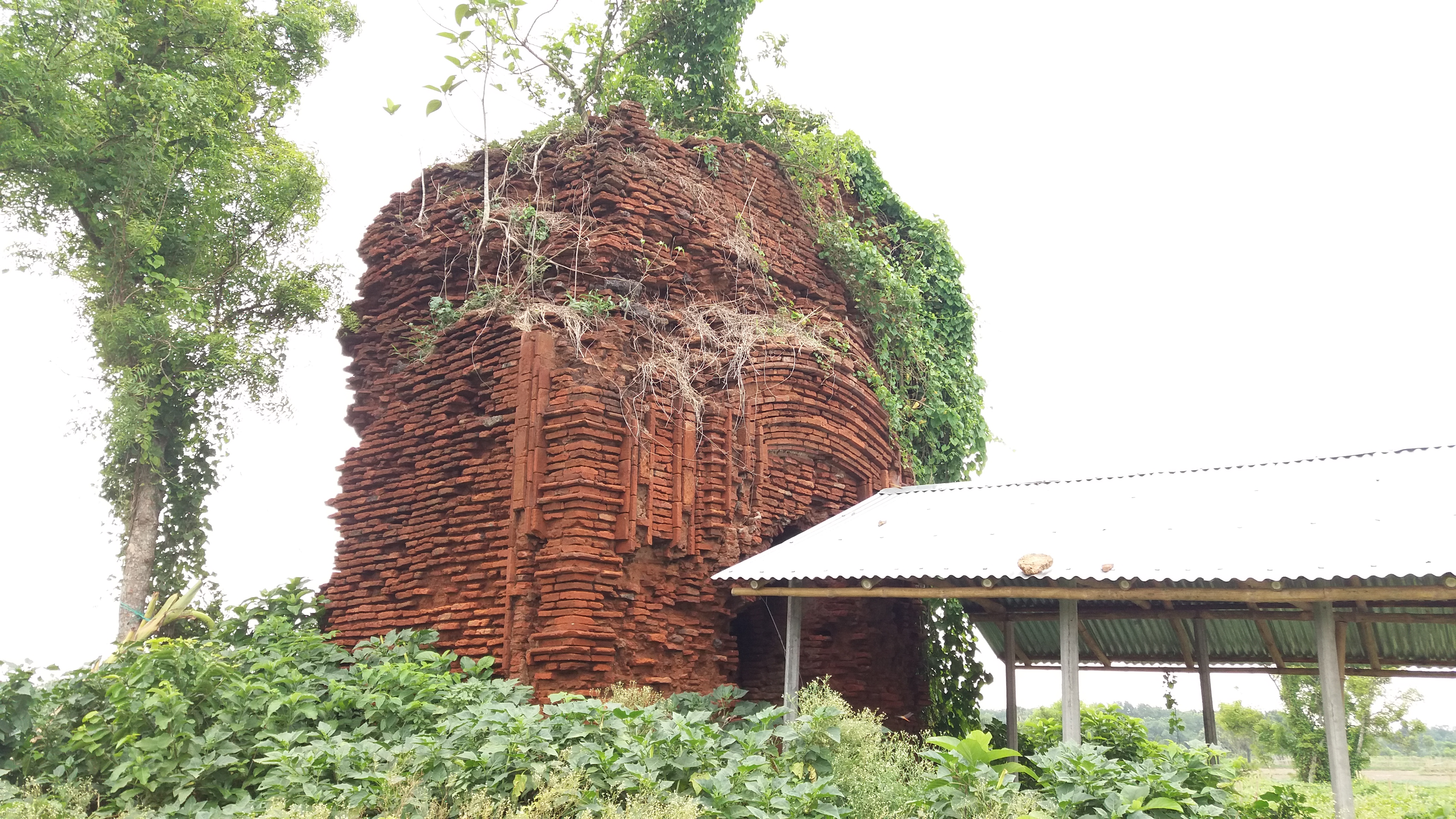 প্রায় চার'শ বছরের পুরানো এই প্রত্নতাত্বিক নিদর্শন টি কর্চাডাংগা, আন্দুলবাড়িয়া, জীবননগরে অবস্থিত। মন্দির এলাকাটিকে মন্দির তলা নামে অভিহিত করা হয়। এখানে মন্দিরের আশে পাশে অসংখ্য পোড়া মাটির ভগ্নাংশ পাওয়া যায়।